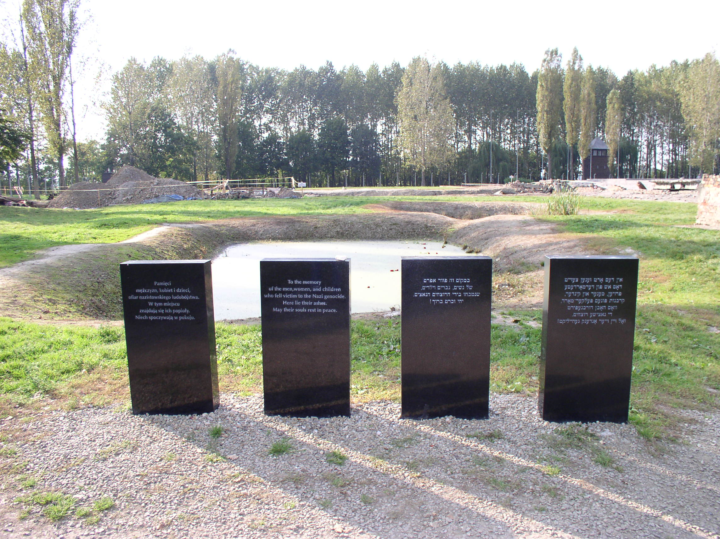 KZ Auschwitz-Birkenau, Poland.